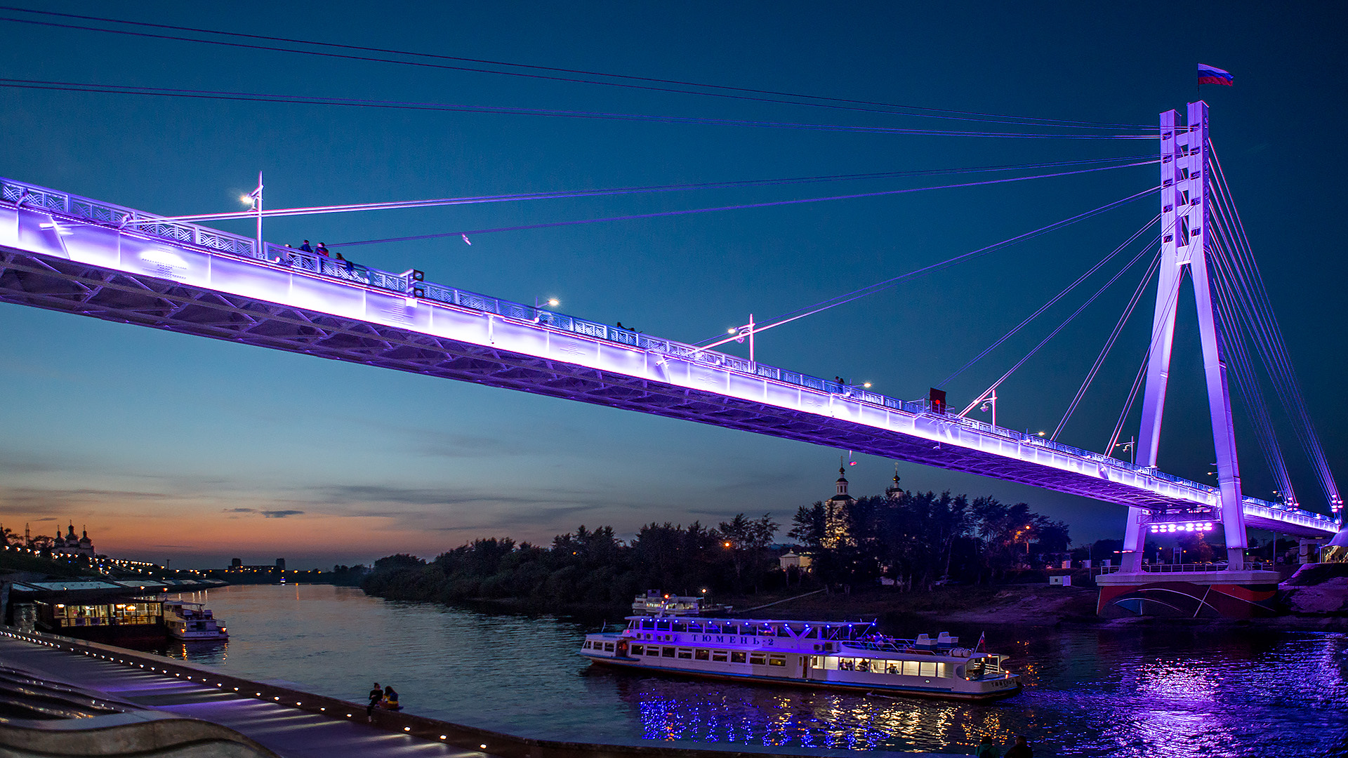 Tyumen, embankment, bridge of lovers